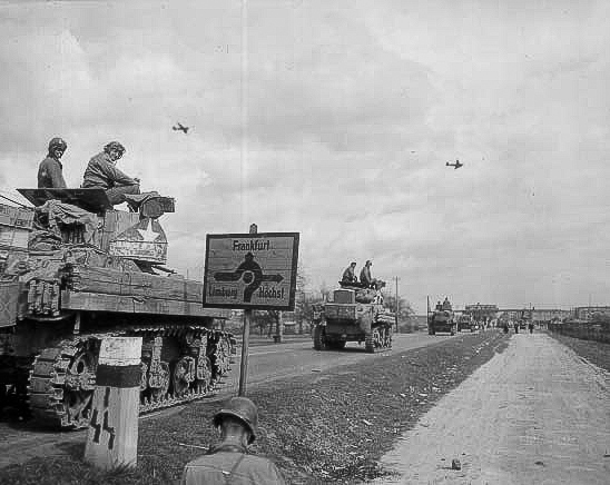 Tanks of the 11th Armored Division, Third U.S. Army, advance along the Autobahn near Frankfurt, Germany, March 31, 1945. In the summer of 1944, Lt. Gen. George S. Patton Jr. assumed command of Third Army, leading it on eight major campaigns across France, Belgium, Luxembourg, Germany, Czechoslovakia and Austria, and establishing Third Army as America's premier fighting Army. (U.S. Army photo.